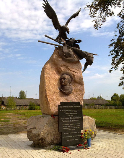 Monument to Mikhail Skopin-Shuisky in Kalyazin